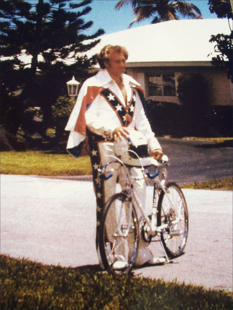 This is daredevil Evel Knievel photographed in front of his house in Ft. Lauderdale, Florida, circa 197?, by Bill Wolf. He lived across the street from Lani Wolf, my oldest friend (our parents were friends and we "met" as infants). Now Lani lives in Oakland. She came across this while moving and sent it to me this week.